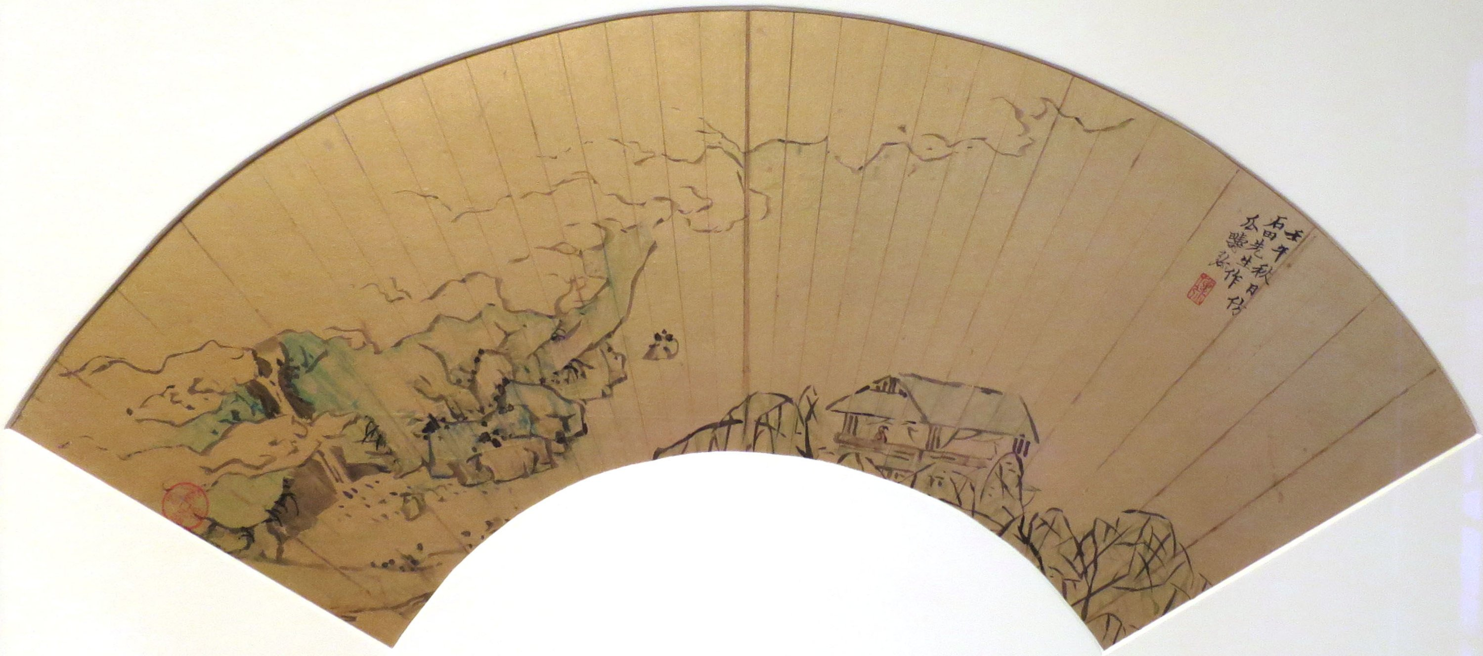 Landscape by Shao Mi, 1642, ink and color on gold paper, Honolulu Museum of Art, accession 2302.1